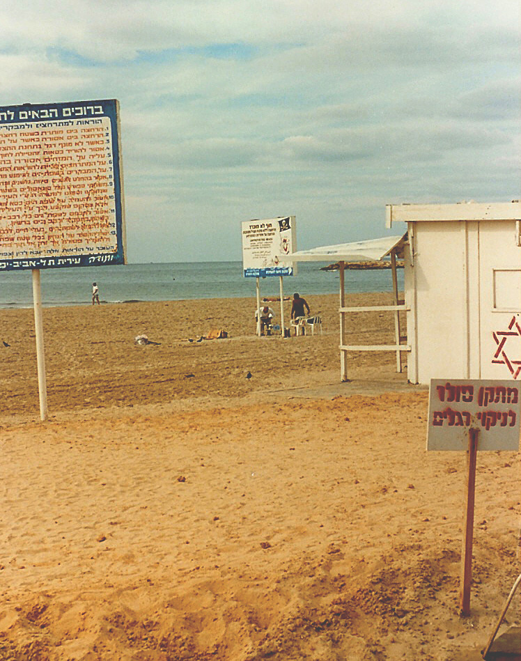 Israel, Tel Aviv, the beach